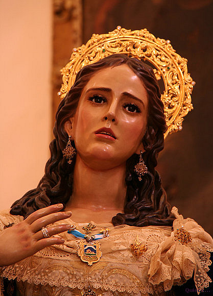 Patrona de Arahal.